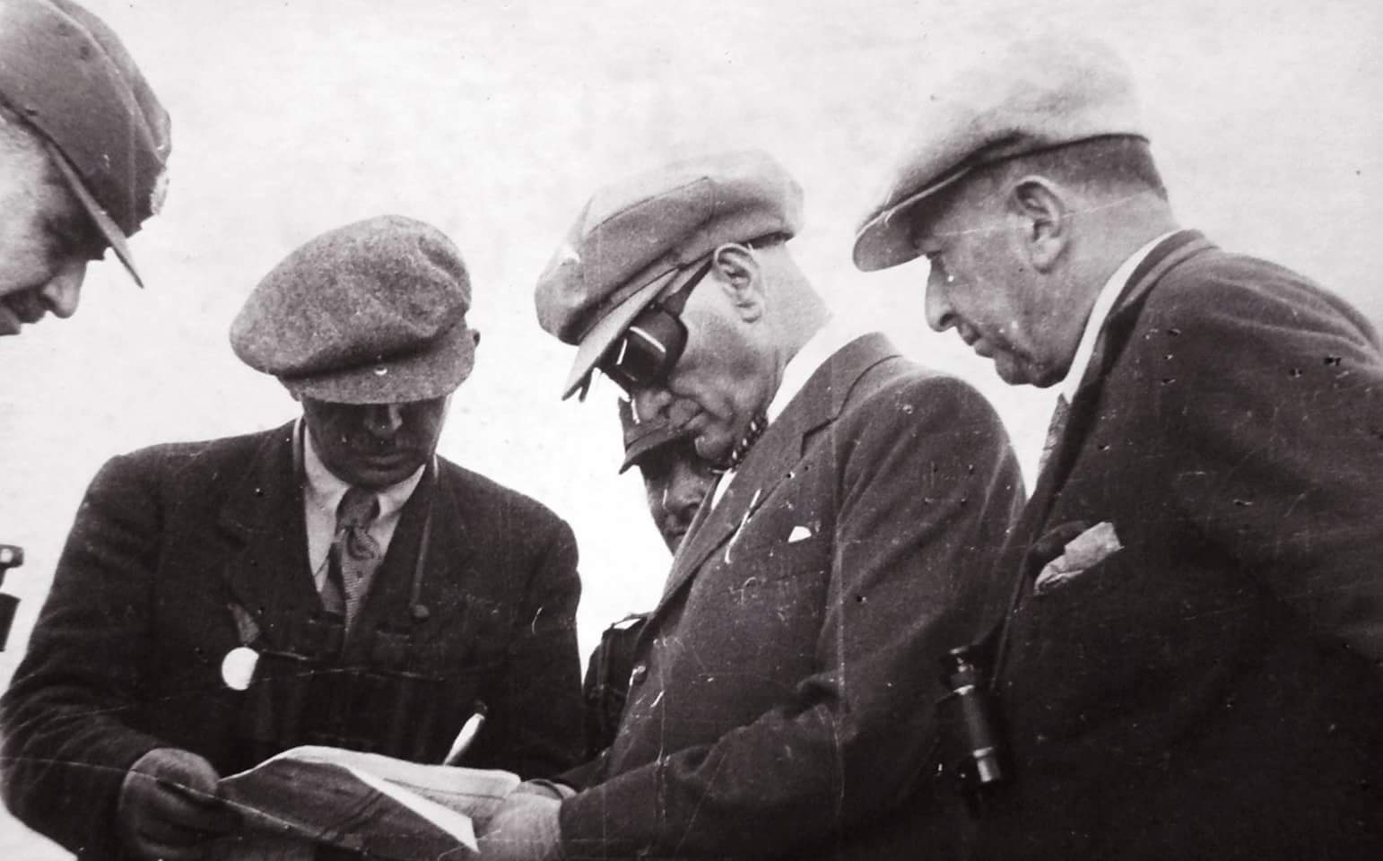 Kemal Atatürk (or alternatively written as Kamâl Atatürk, Mustafa Kemal Pasha until 1934, commonly referred to as Mustafa Kemal Atatürk; 1881 – 10 November 1938) was a Turkish field marshal, revolutionary statesman, author, and the founding father of the Republic of Turkey, serving as its first President from 1923 until his death in 1938. He undertook sweeping progressive reforms, which modernized Turkey into a secular, industrial nation. Ideologically a secularist and nationalist, his policies and theories became known as Kemalism. Due to his military and political accomplishments, Atatürk is regarded as one of the most important political leaders of the 20th century.